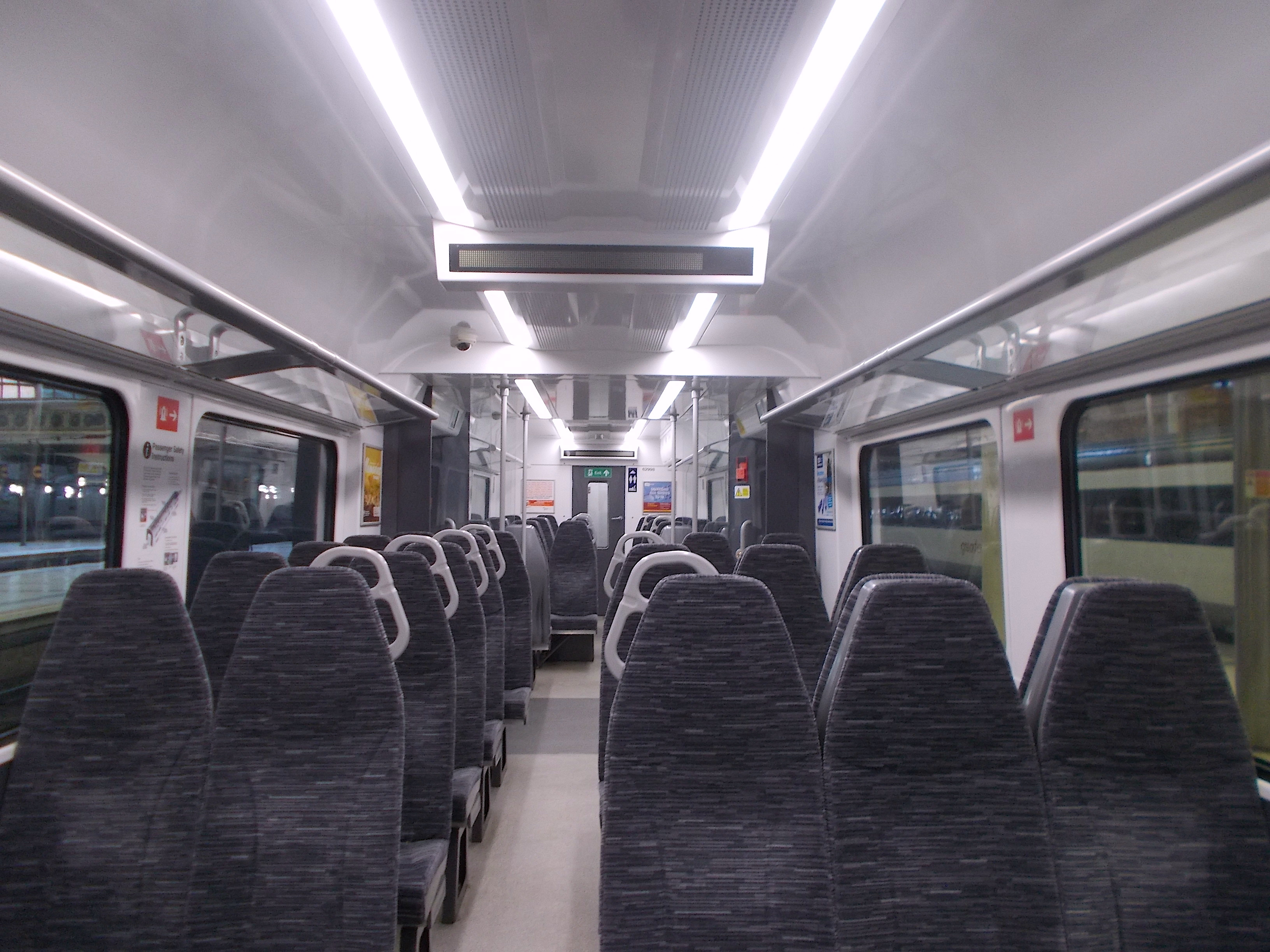 The interior of the refurbished Standard Class accommodation aboard the MSO vehicle